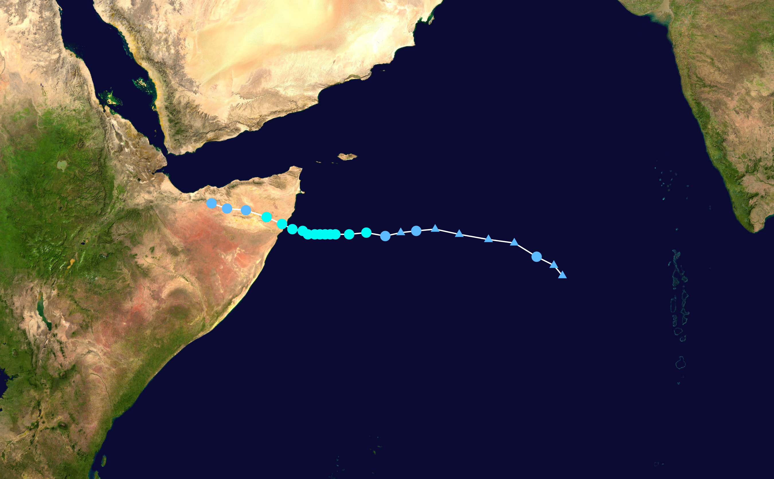 Track map of Deep Depression ARB 01 of the 2013 North Indian Ocean cyclone season. The points show the location of the storm at 6-hour intervals. The colour represents the storm's maximum sustained wind speeds as classified in the Saffir–Simpson scale (see below), and the shape of the data points represent the nature of the storm, according to the legend below. Saffir–Simpson scale Tropical depression≤38 mph≤62 km/h Category 3111–129 mph178–208 km/h Tropical storm39–73 mph63–118 km/h Category 4130–156 mph209–251 km/h Category 174–95 mph119–153 km/h Category 5≥157 mph≥252 km/h Category 296–110 mph154–177 km/h Unknown Storm type Tropical cyclone Subtropical cyclone Extratropical cyclone / Remnant low / Tropical disturbance / Monsoon depression